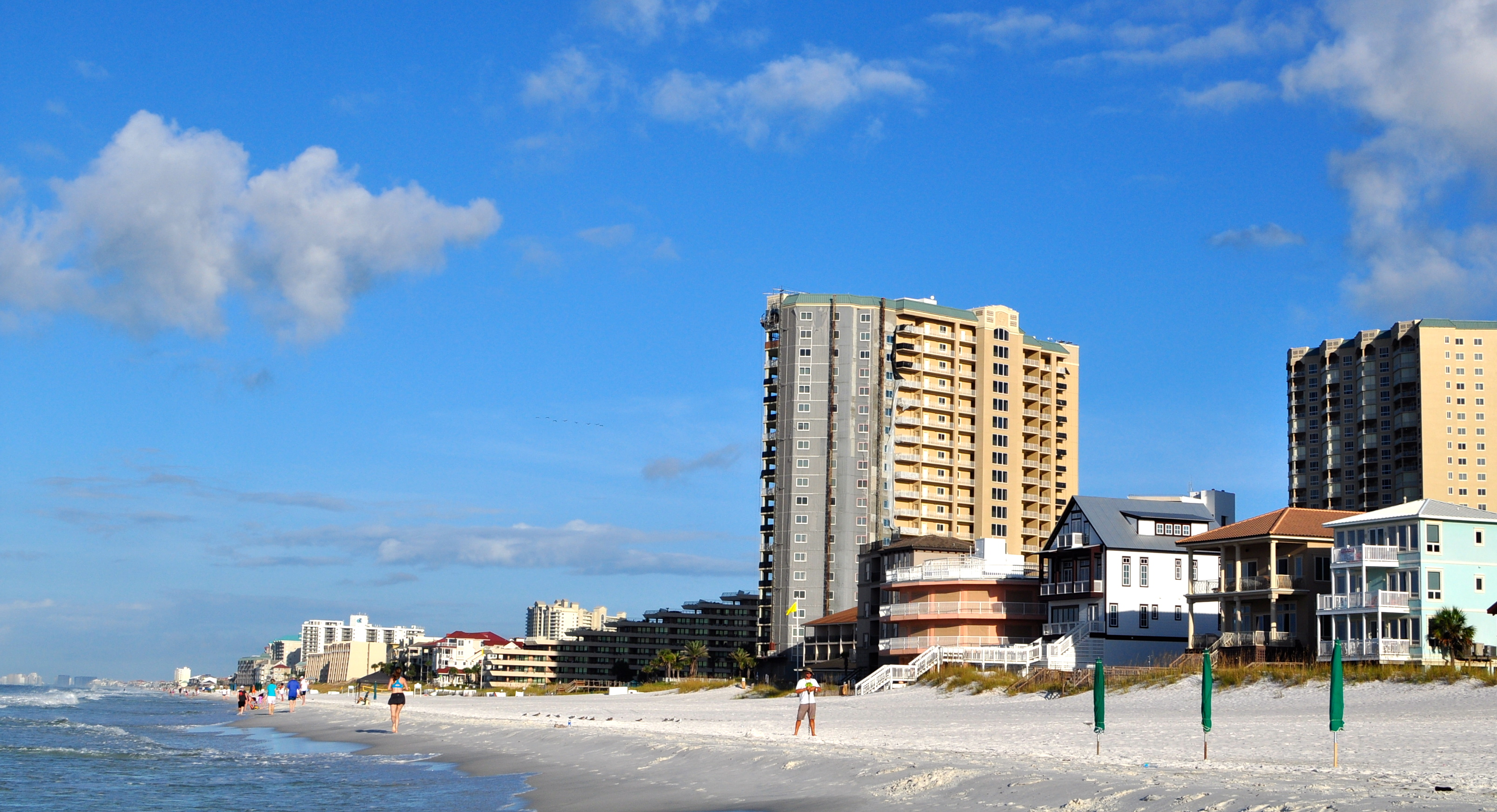 The oceanfront at Miramar Beach.